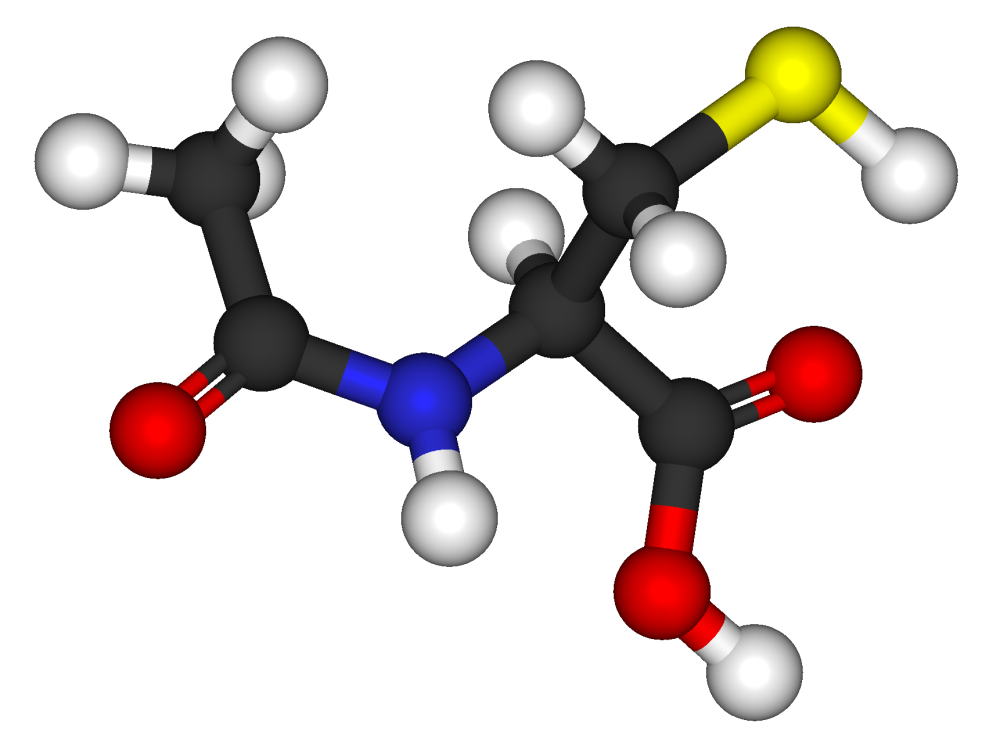 Ball-and-stick model of acetylcysteine (N-acetyl-L-cysteine, NAC). Created using Accelrys DS Visualizer Pro 1.6 and GIMP.